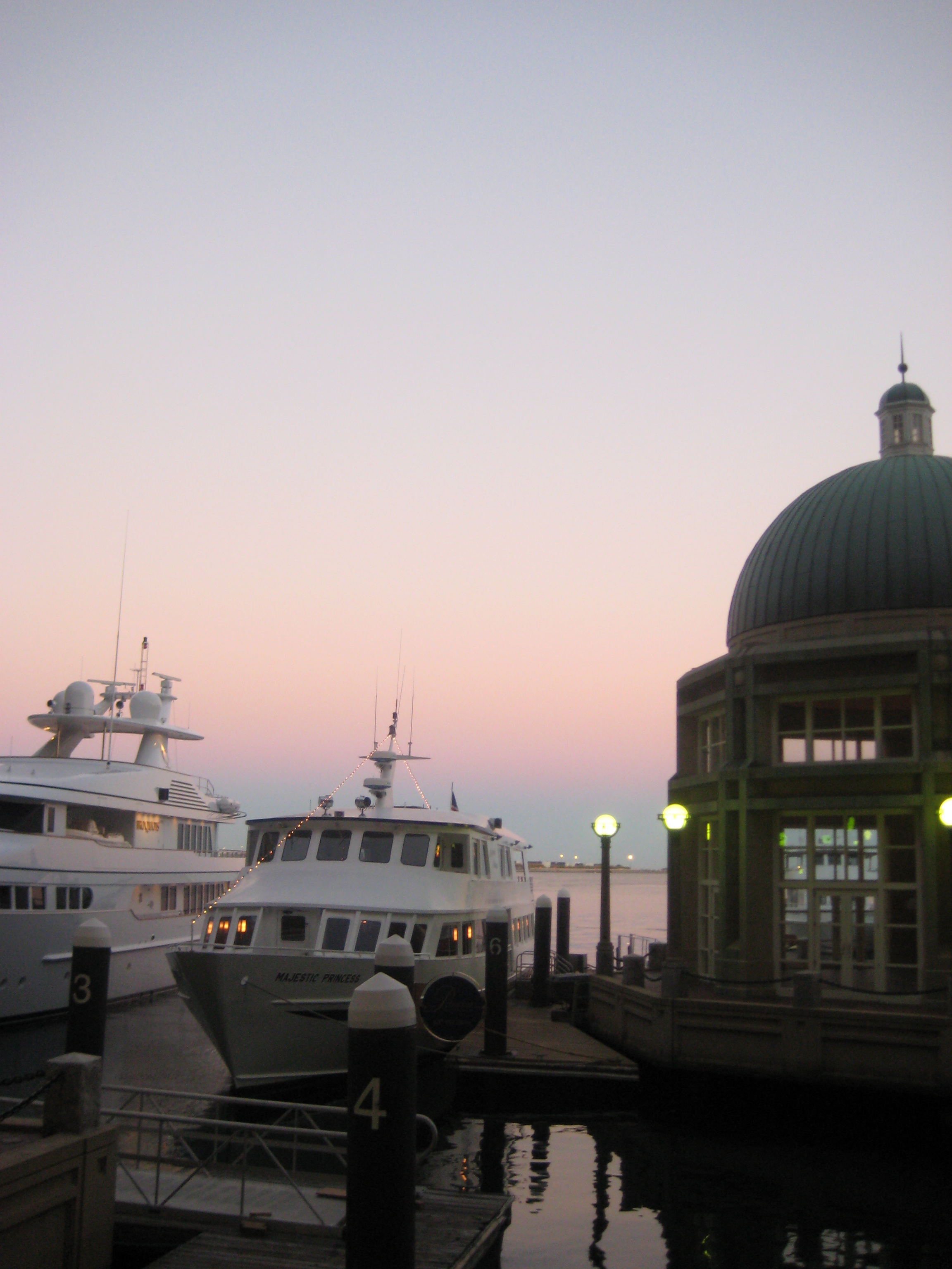 The commercial charter boat Majestic Princess moored at Rowe's Wharf in Boston Harbor.